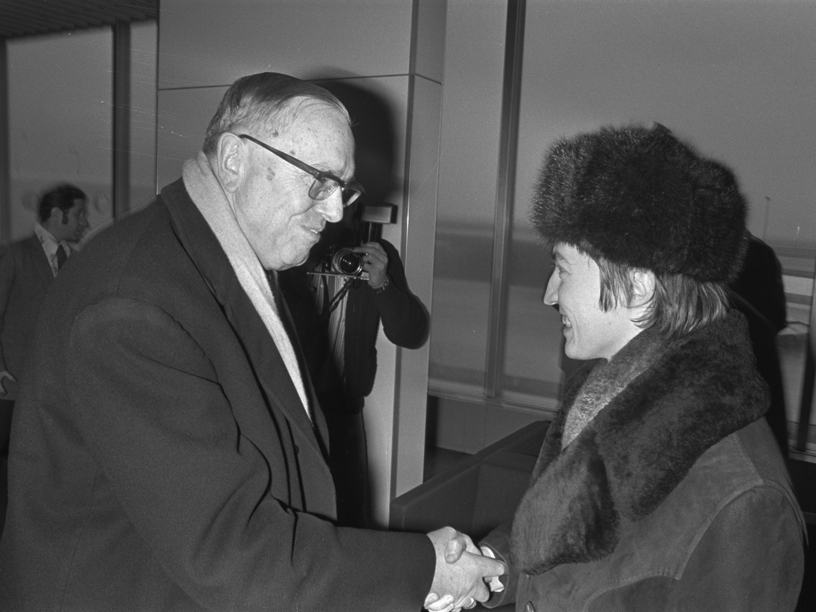 Max Euwe meets Anatoly Karpov